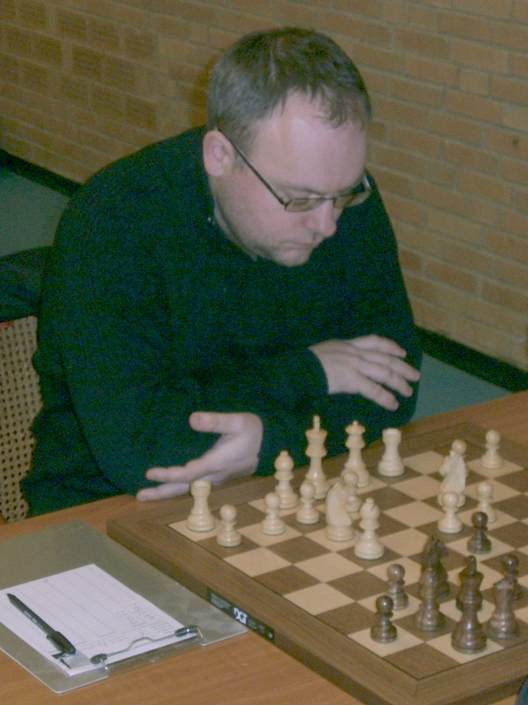 GM Daniel W. Gormally playing in the Groningen Chess Festival 2012 in Groningen (the Netherlands)